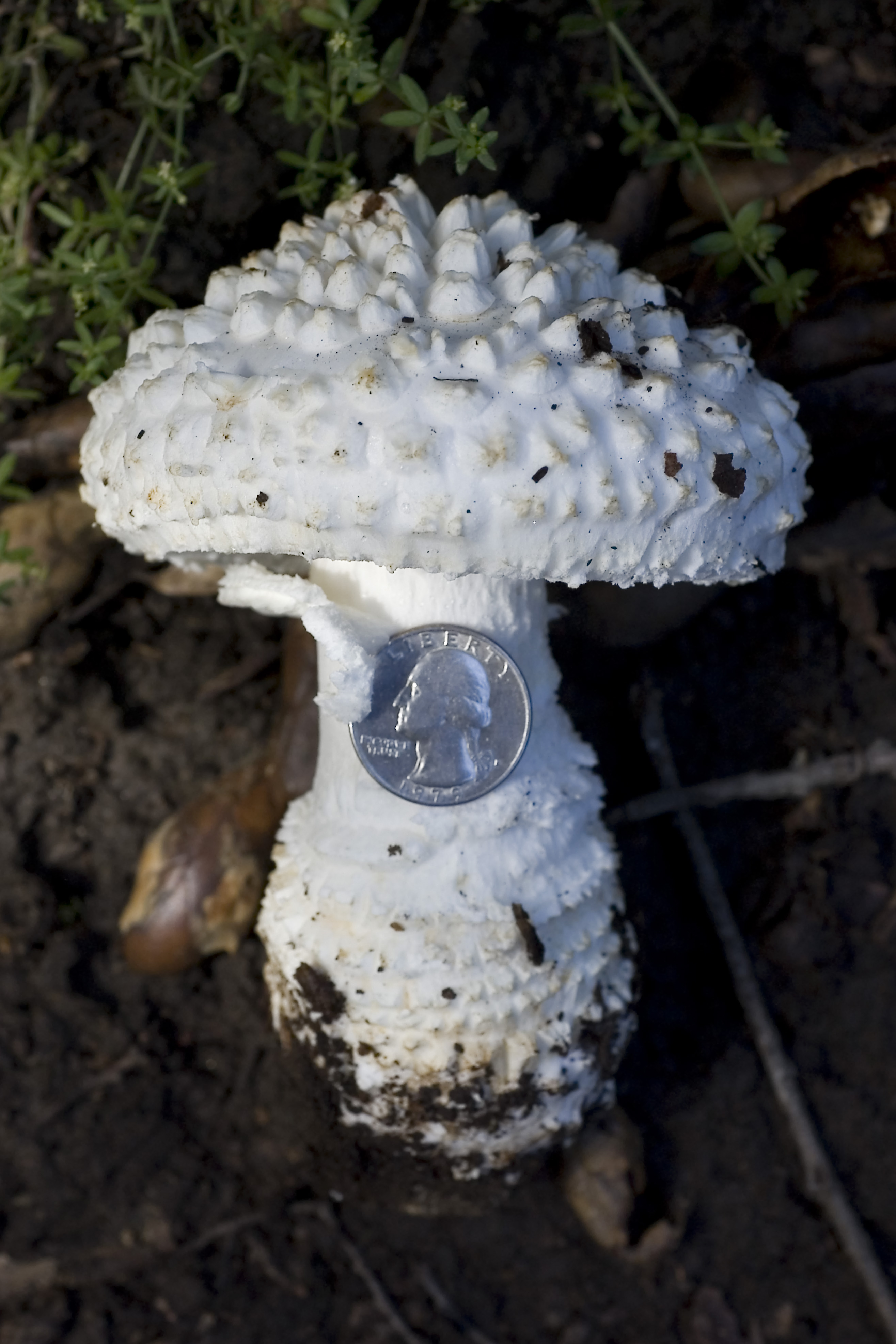 Amanita magniverrucata Thiers & Ammirati Location: Aliso and Wood Canyons Wilderness Park, Laguna Niguel, California, USA For more information about this, see the observation page at Mushroom Observer.